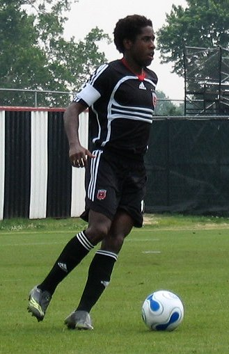 Photo of Clyde Simms taken by me at RFK Auxilary Field, Washington, DC during a Major League Soccer (MLS) Reserve match between D.C. United and Houston Dynamo.